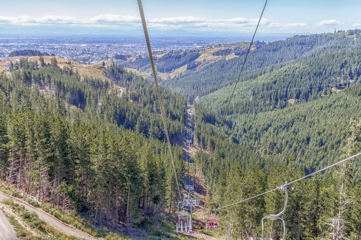 Wow...! What a wonderful addition to Christchurch - The Christchurch Adventure Park - and it is less than 10 minutes down the road from us. The chairlift is the longest in New Zealand at 1.8 km - a fantastic ride even for sightseers.